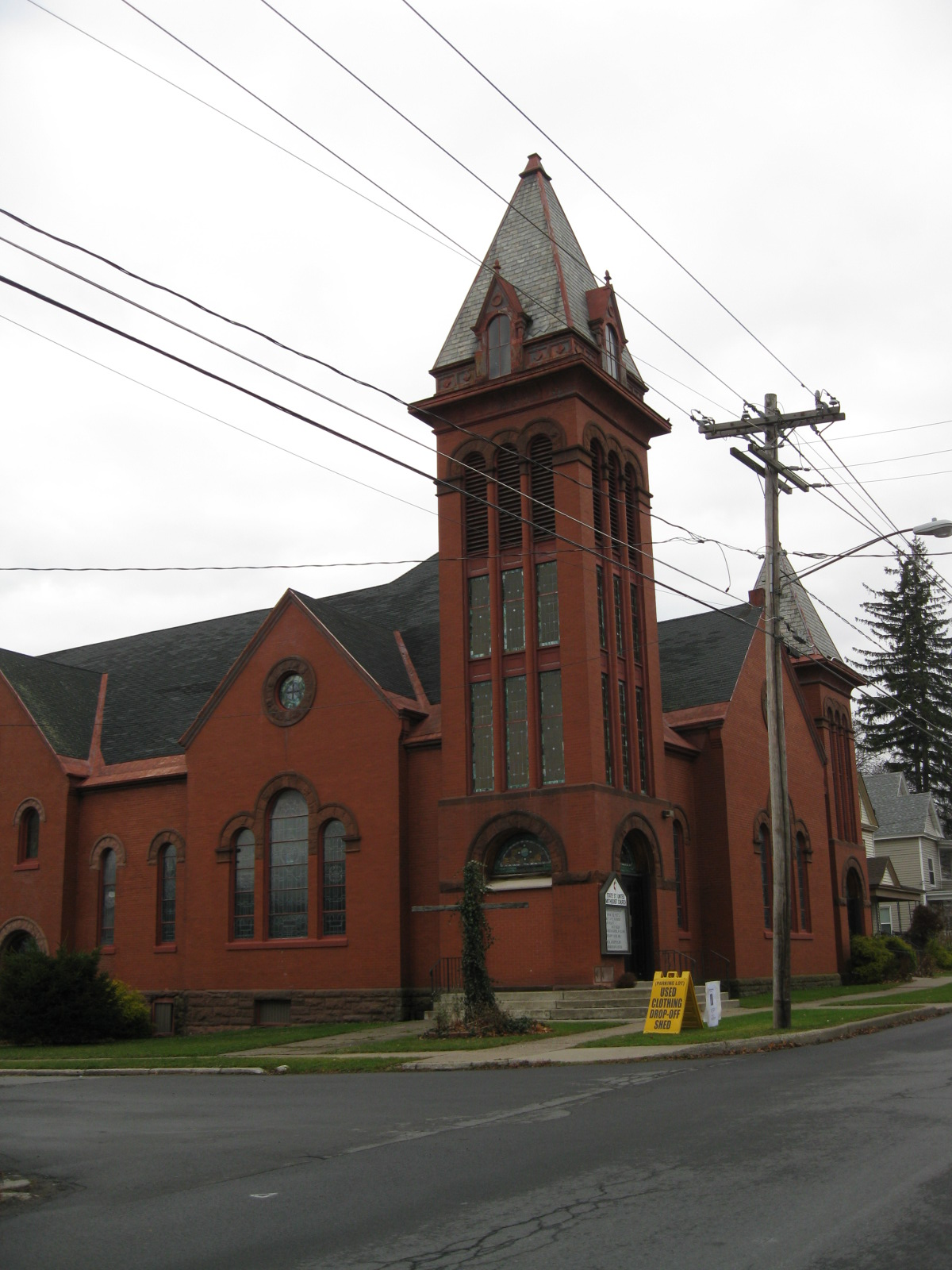 NRHP-listed State Street Methodist Episcopal Church in Fulton, Oswego County, New York.